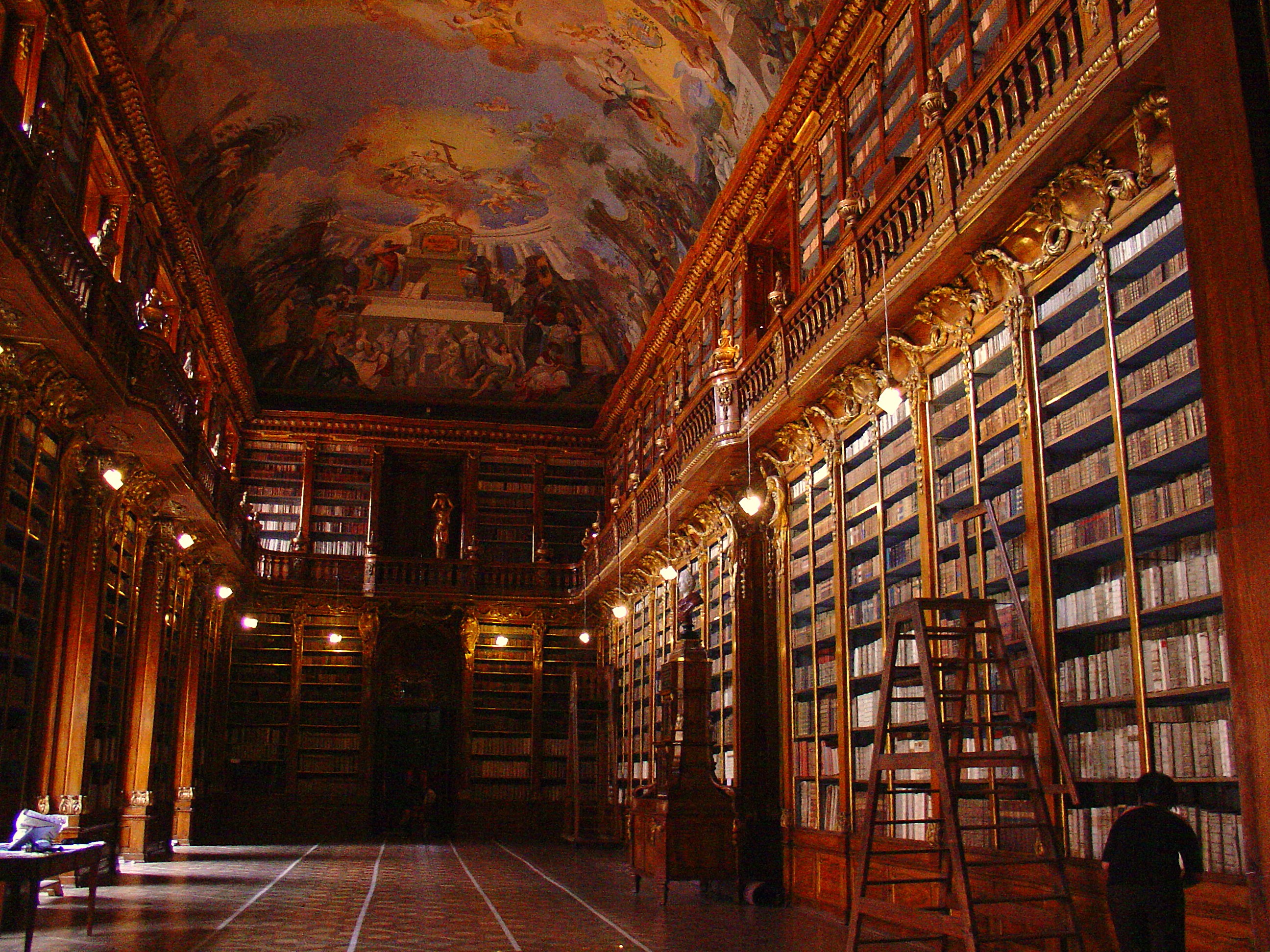 The philosophical's room from Strahov monastery (Prague). It was built for the books coming from Louka's convent, in Moravia, closed in 1782. The frescos, by Franz Maulbertsch, show human's fight for knownledge.